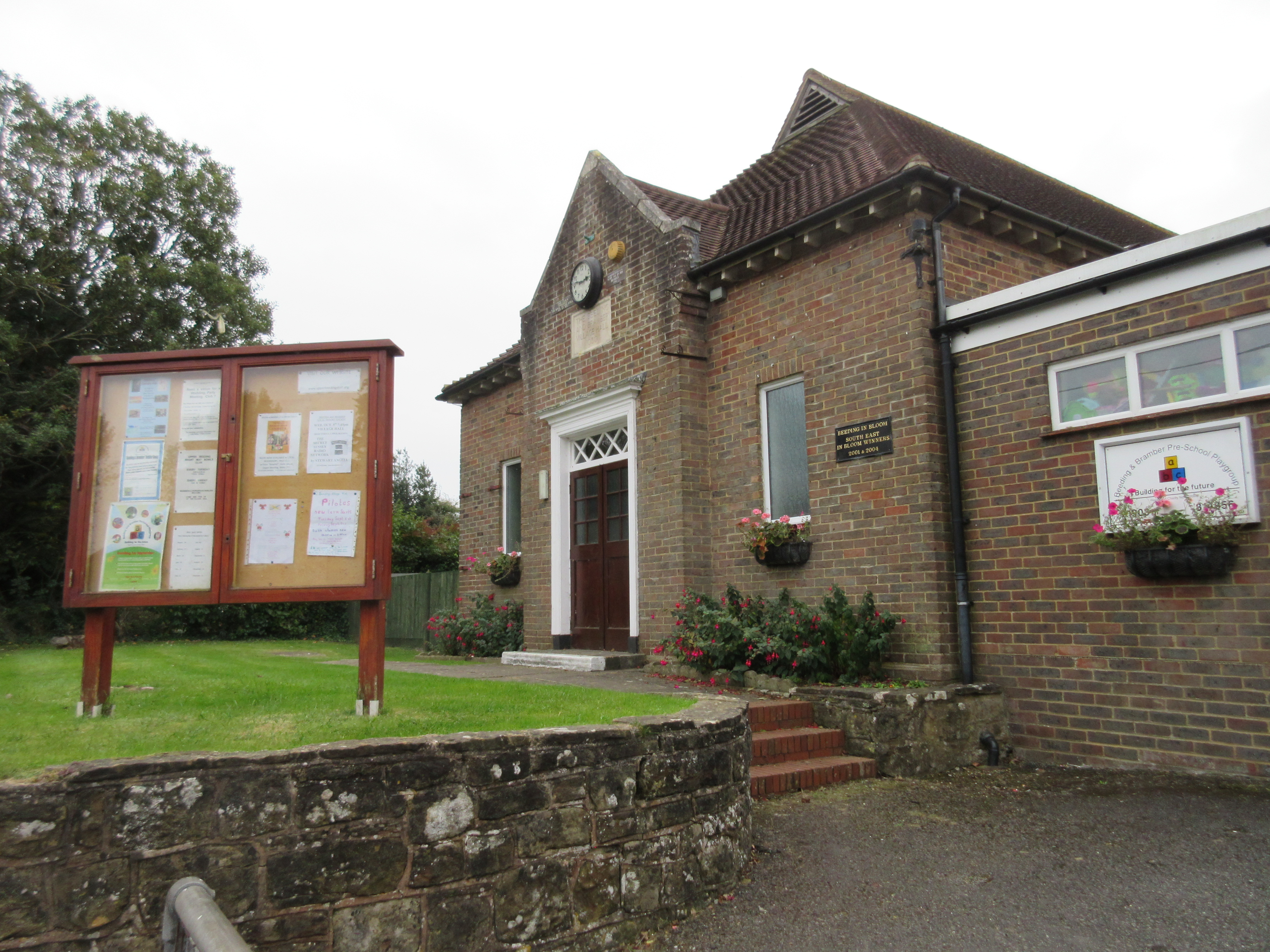 A view of Upper Beeding and Bramber Village Hall from the main entry pavement, showing the notice board.